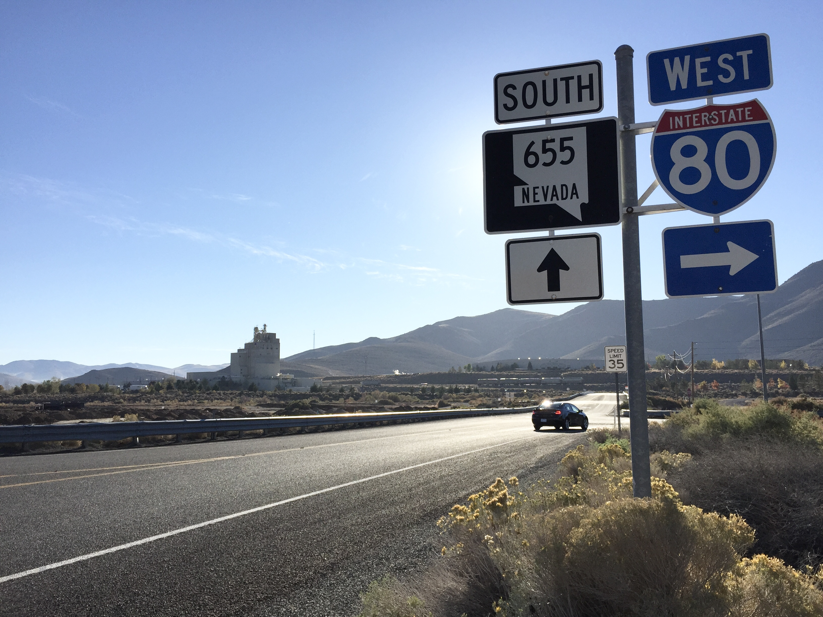 View south along Nevada State Route 655 (Waltham Way) near Interstate 80 in Washoe County, Nevada